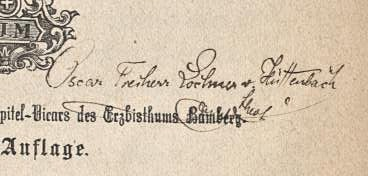 Freiherr Oskar Lochner von Hüttenbach (1868-1920), kath. Priester, Historiker, eigene Unterschrift um 1900